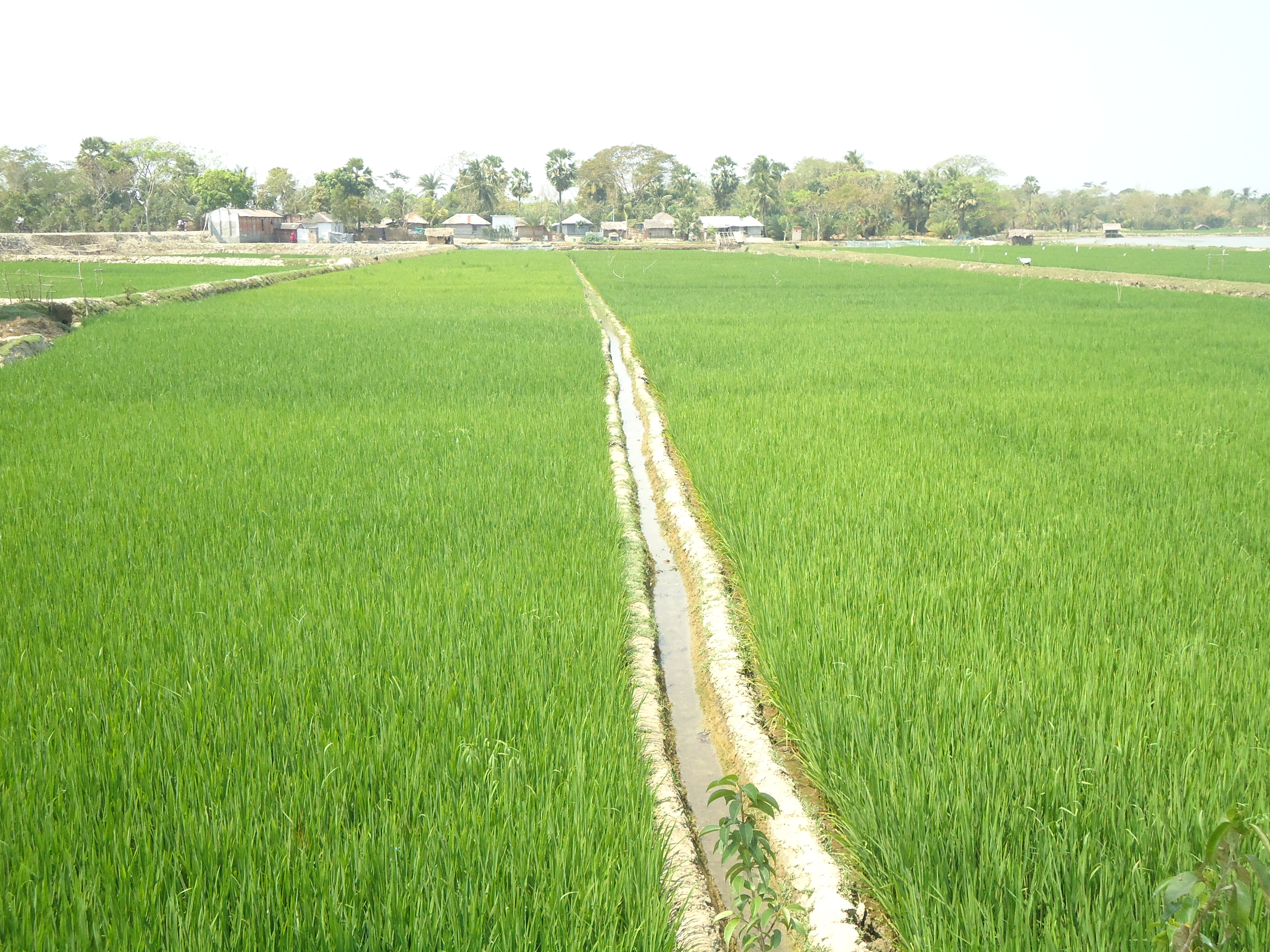 Beside two paddy fields in Khulna, Bangladesh